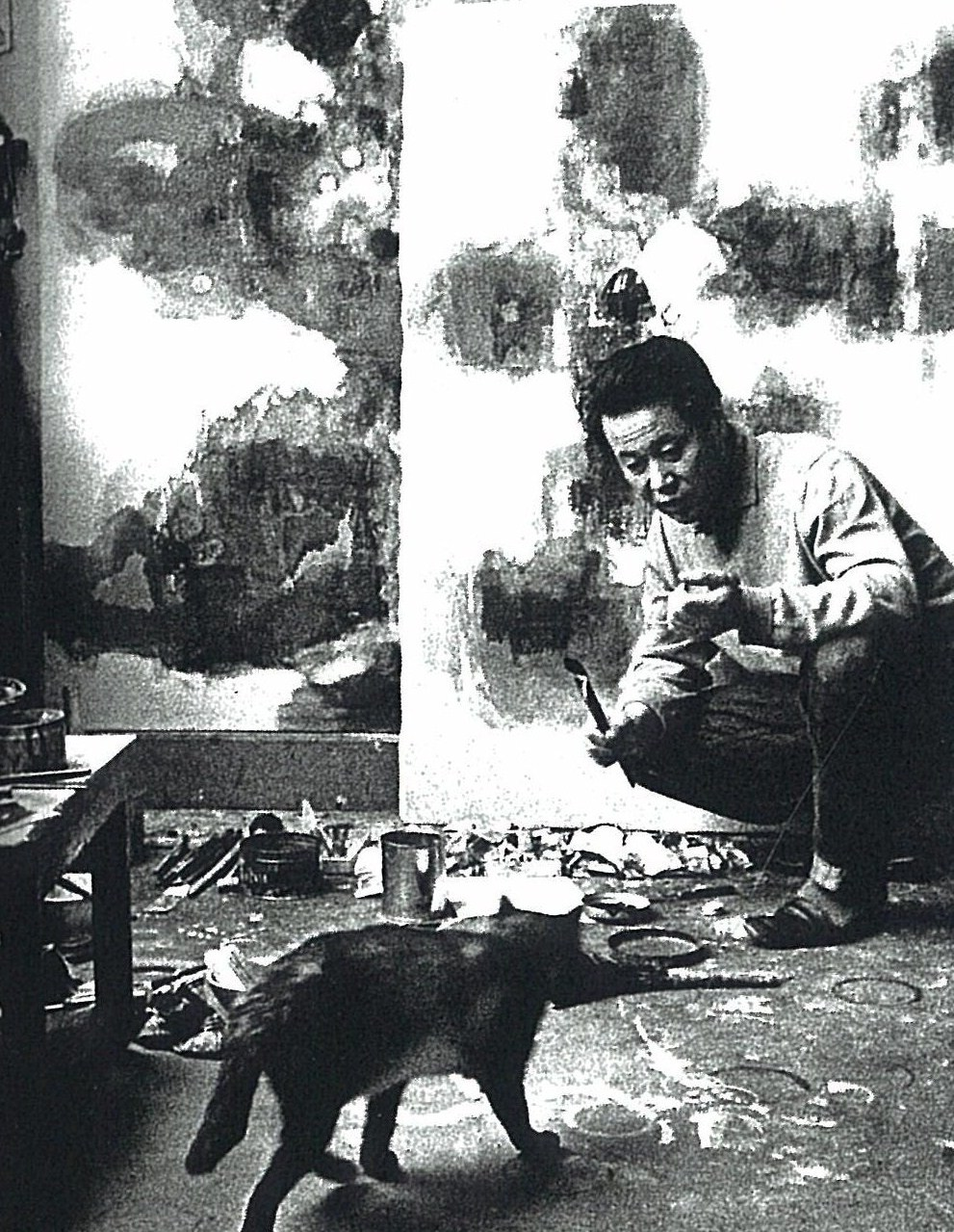 Jun-ichi Dobashi (1910-1978) was a Japanese painter.